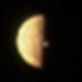 JunoCam acquired three images of Io prior to when it entered eclipse, all showing a volcanic plume illuminated beyond the terminator. The image shown here, reconstructed from red, blue and green filter images, was acquired at 12:20 (UTC) on Dec. 21, 2018. The Juno spacecraft was approximately 300,000 km from Io.